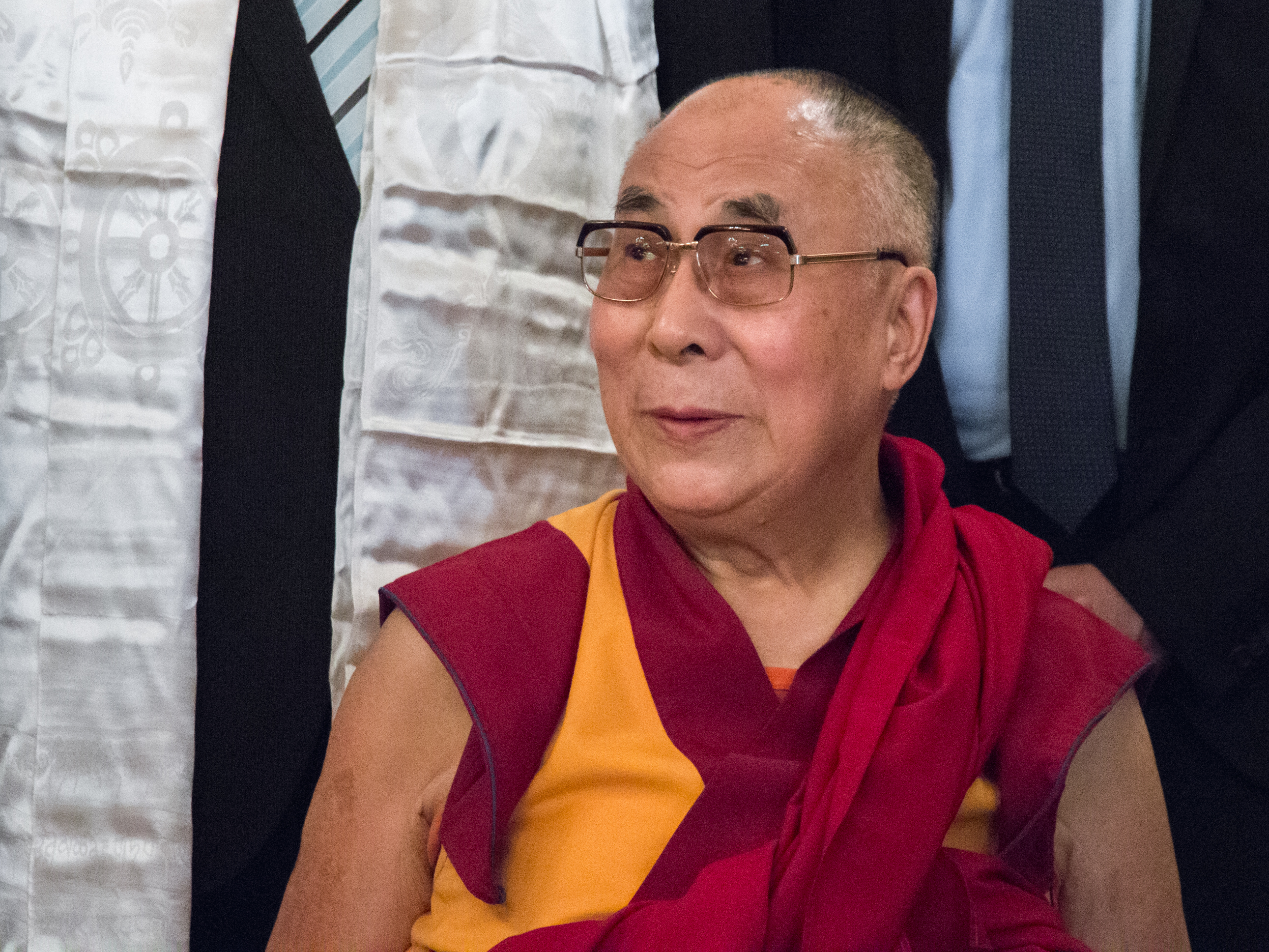 Tenzin Gyatso the 14th Dalai Lama during his visit in Wiesbaden in July 2015